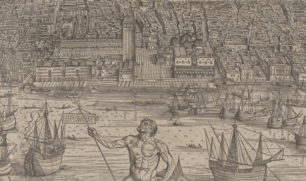 bird's-eye view of Venice. The view is in unusually good condition. The first state showing the Campanile in Piazza San Marco with the temporary flat roof after a fire in 1489. In the second state the block was altered to take account of the restoration work done in 1511-4 and the date 1500 ("MD") was removed.